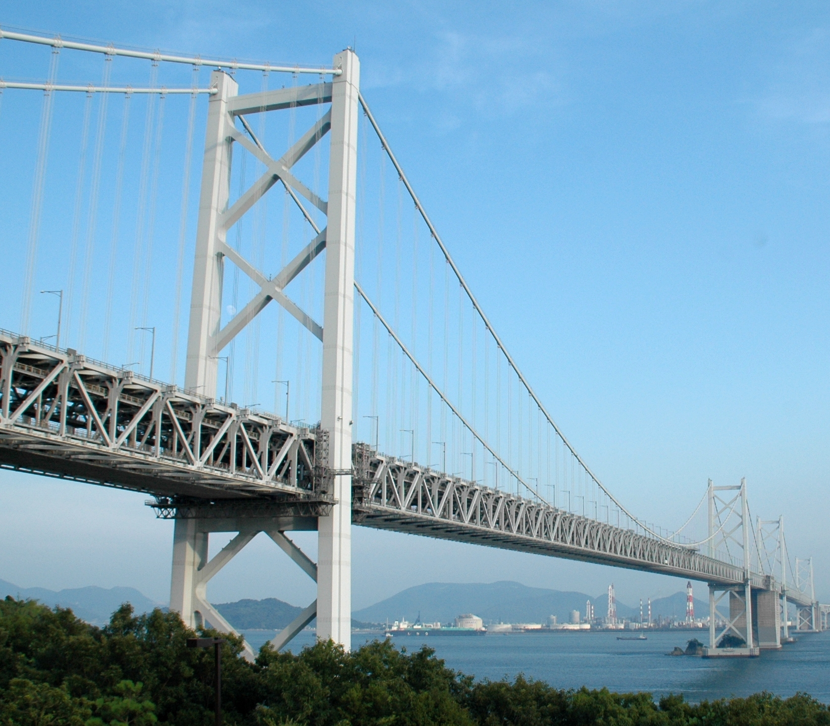 The Great Seto Bridge linking Honshū and Shikoku islands in Japan